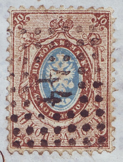 Russian stamp with numeral cancellation 44: Dwinsk (German: Dünaburg, now Daugavpils in Latvia), used on a letter from 15 July 1860